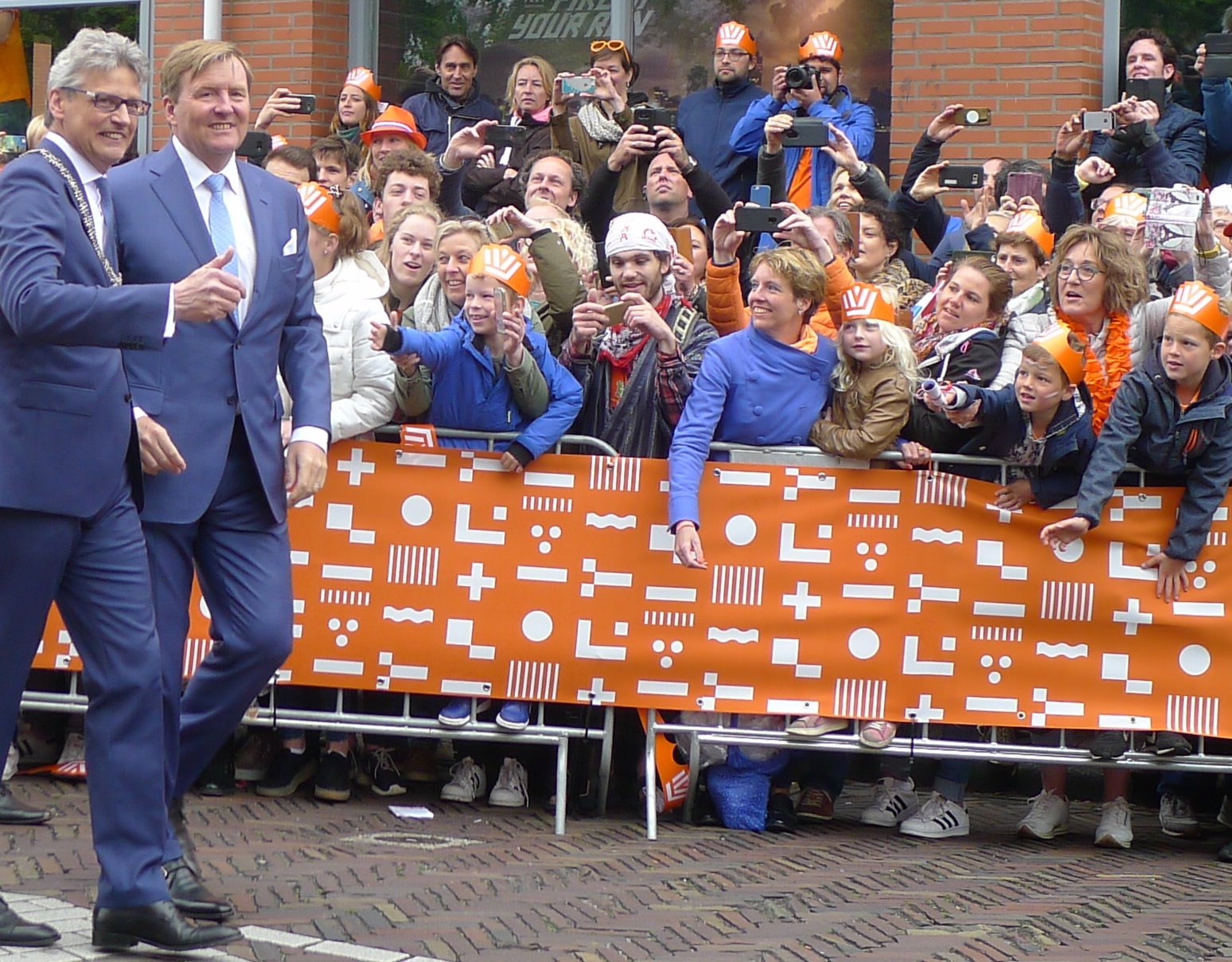 The Dutch King Willem-Alexander and mayor Lucas Bolsius (left) during the celebration of Kings Day 2019 in the city of Amersfoort.